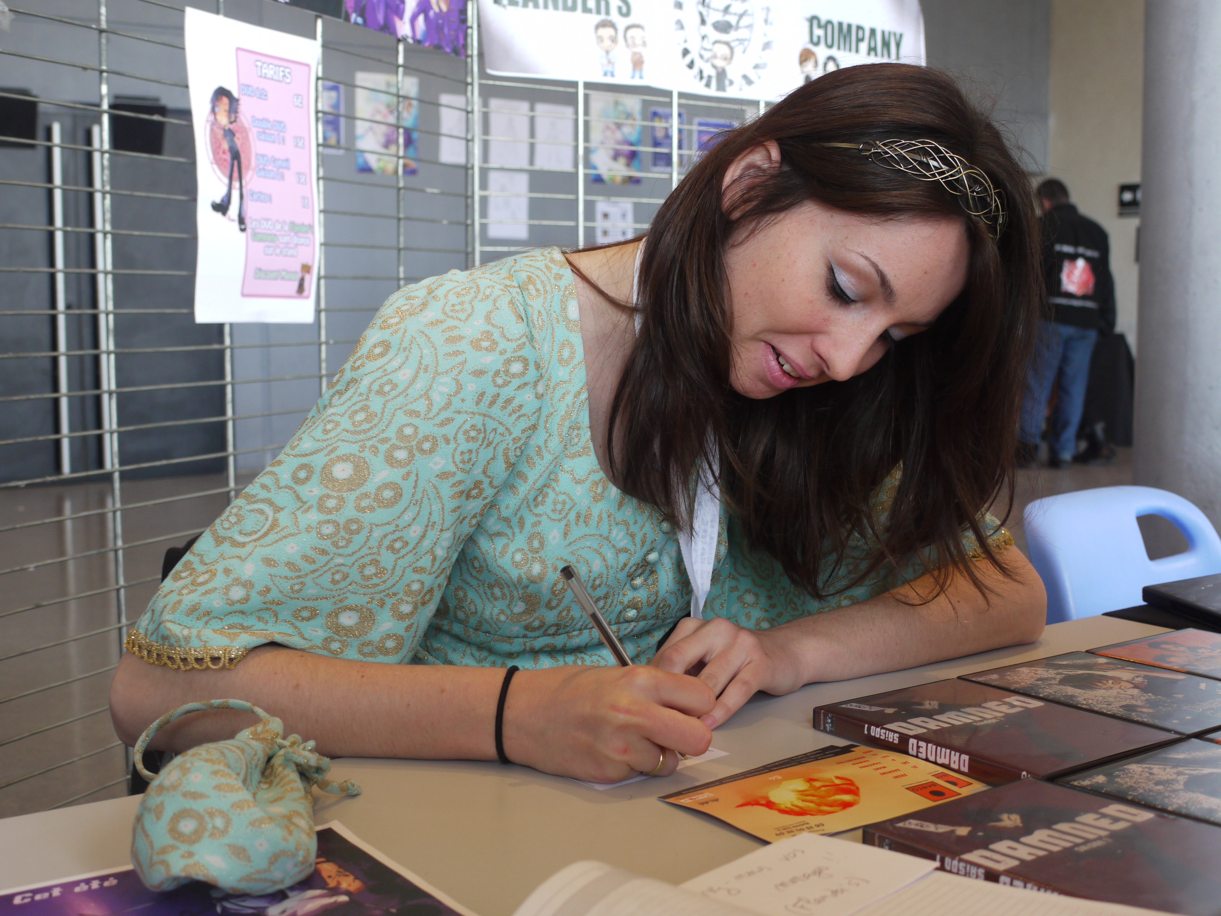 Gaea, one of the actress of the 'Noob' shortcom, at the Mang'Azur Festival located in the Zenith of Toulon in 2009.